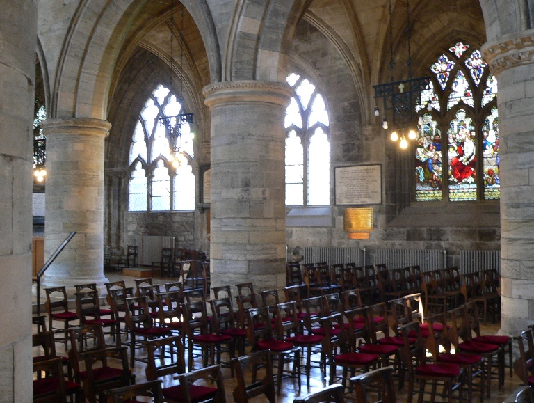 Church of the Holy Rude, Stirling, Scotland - interior